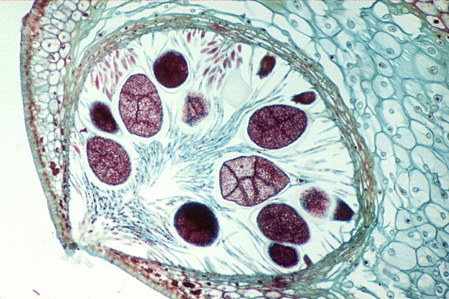 Light micrograph of a cross section of a conceptacle of Fucus, showing oogonia and antheridia